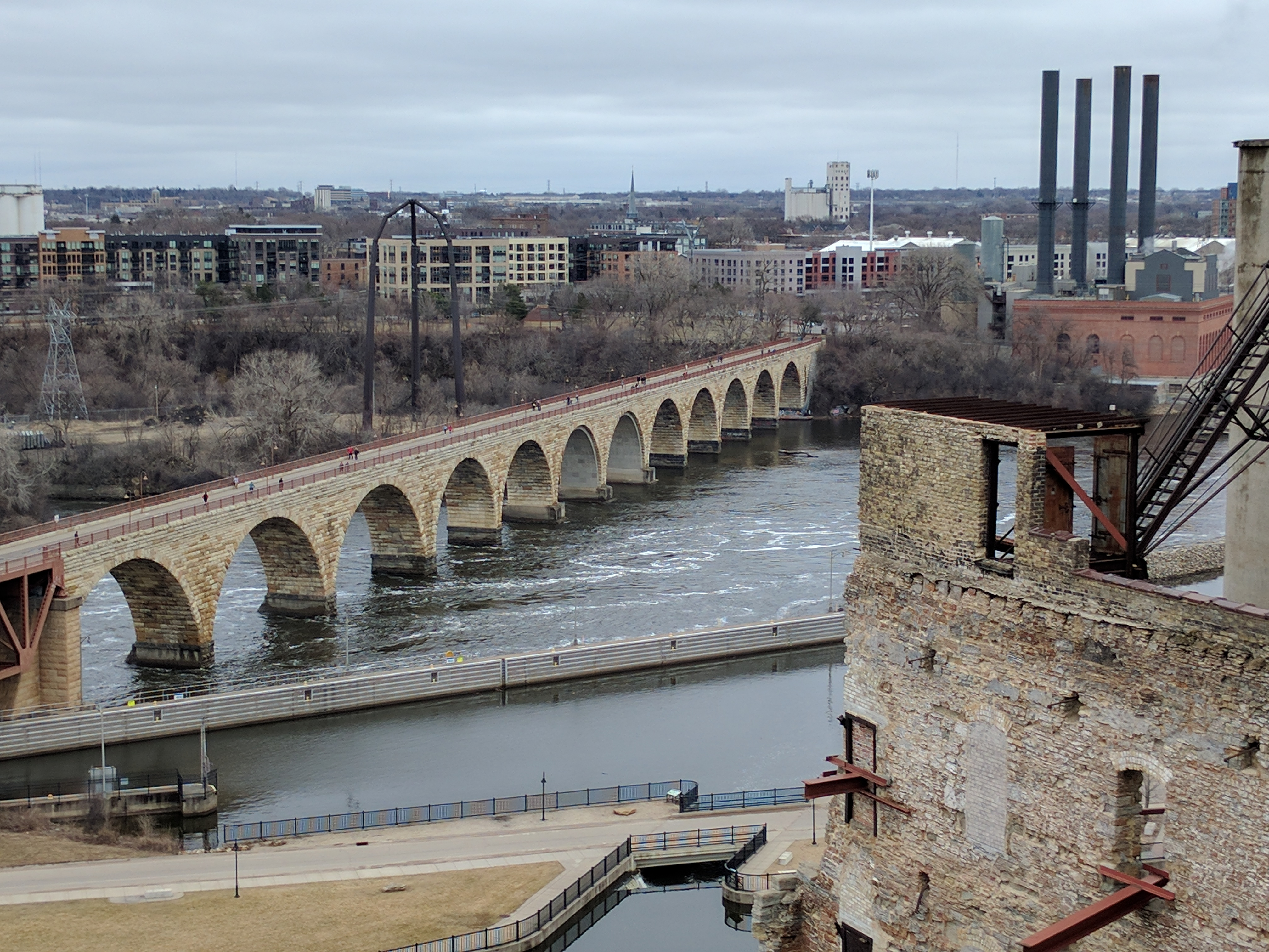 Mill City Museum, Minneapolis, Minnesota